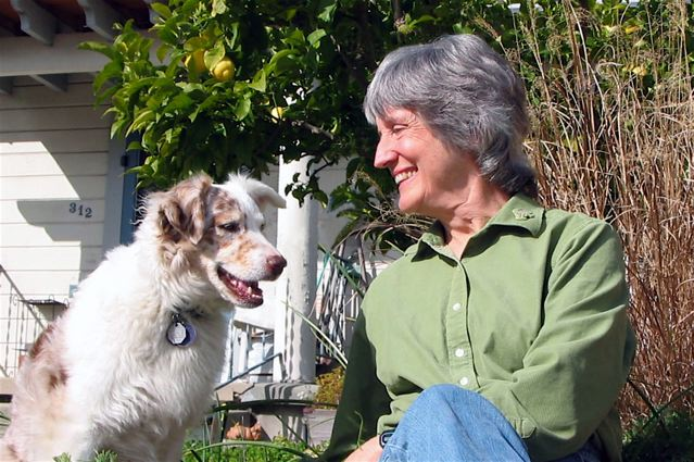 Photograph of Donna Haraway and Cayenne